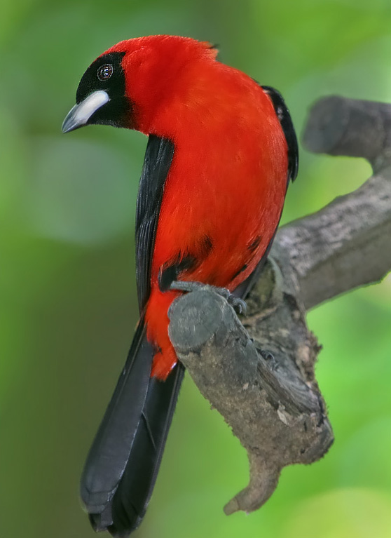 Ramphocelus nigrogularis - Masked Crimson Tanager